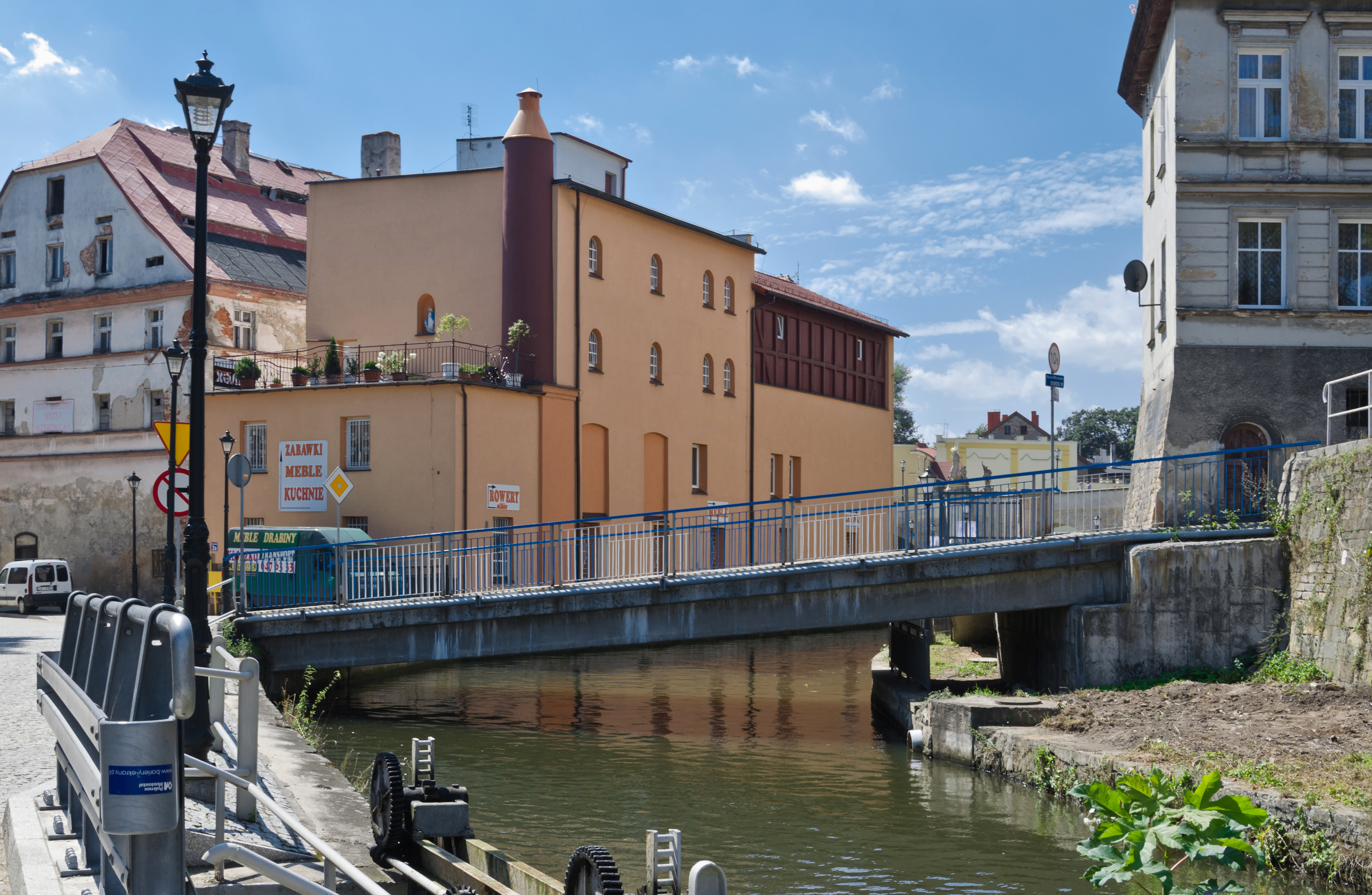 Wodna Street in Kłodzko, brigde over Młynówka channel